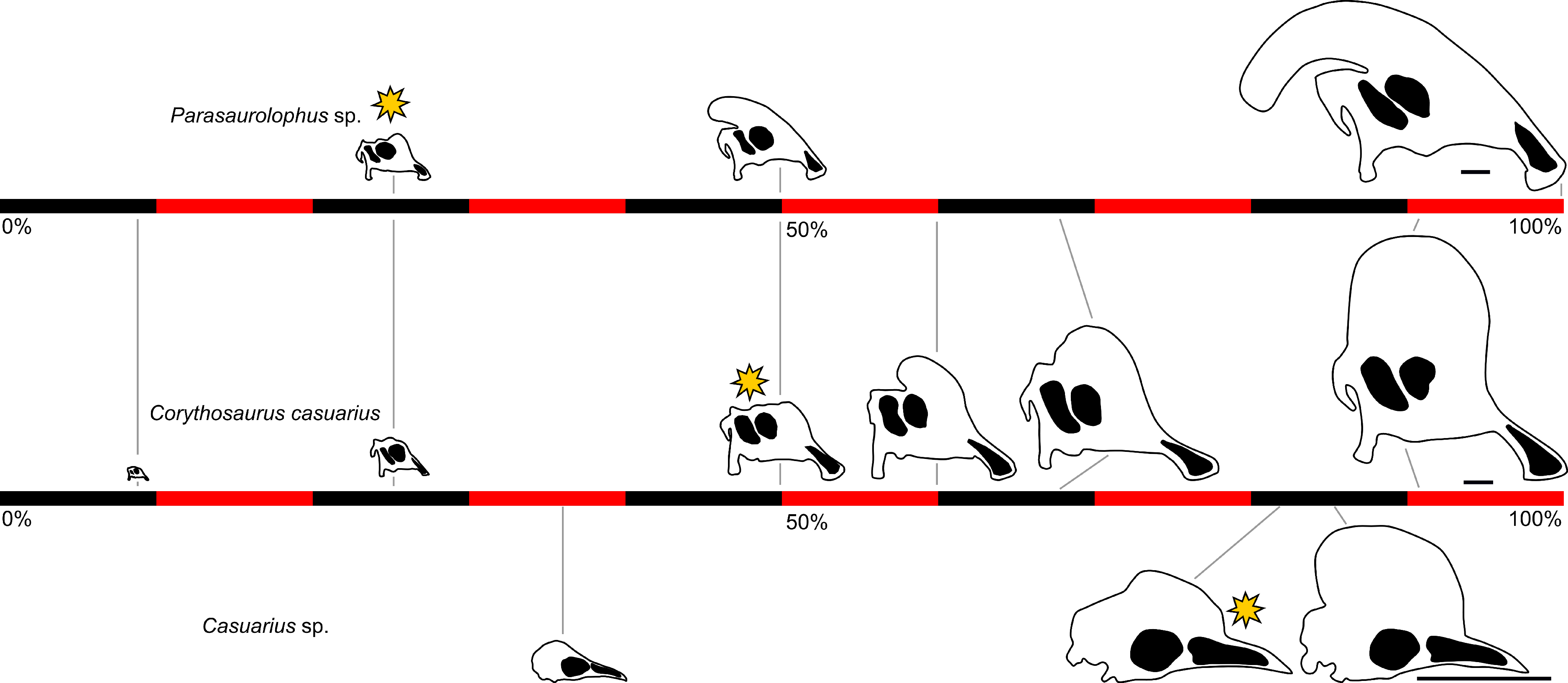 Cranial growth series for Parasaurolophus sp., Corythosaurus casuarius, and Casuarius sp., showing changes in bony ornamentation relative to maximum reported skull length for each taxon. The black and red scale indicates percentage of maximum reported skull length in increments of 10 percent. The yellow sunburst indicates the approximate skull size at which ornamentation initially appears. Note that Parasaurolophus develops its crest at a very small skull size relative to Corythosaurus, and both hadrosaurids initiate the development of cranial ornamentation at a smaller relative skull size than in Casuarius. Skulls for Parasaurolophus sp. are based on RAM 14000, a hypothetical subadult (Fig. 11B), and the holotype for Parasaurolophus cyrtocristatus (FMNH P 27393, with missing elements patterned after ROM 768). The growth series for Corythosaurus is a composite, with the two smallest skulls (at left) patterned after Hypacrosaurus stebingeri. Because the two taxa are so closely related, and because they show broadly similar patterns of cranial growth where individuals of overlapping size are known (Evans, 2010; Brink et al., 2011), we consider this a reasonable assumption. The smallest skull (at left) is based on RTMP 89.79.52, 87.79.206, 87.79.241, 87.77.92, and 87.79.333, and represents an embryonic individual (redrawn from Horner & Currie, 1994). The next smallest skull is patterned after MOR 548 (also redrawn from Horner & Currie, 1994). The remaining skulls, from left, are patterned after ROM 759, CMN 34825, ROM 5856, and ROM 871, redrawn from Evans (2010). Skulls of Casuarius are redrawn from Dodson (1975) and based on (from left) YPM 6208, YPM 1736 (snout region reconstructed), and AMNH 3870. Maximum skull lengths for Parasaurolophus, Corythosaurus, and Casuarius are 745 mm (ROM 768), 750 mm (ROM 792) and 200 mm, respectively (Dodson, 1975; Evans, 2010). Scale bars equal 10 cm.